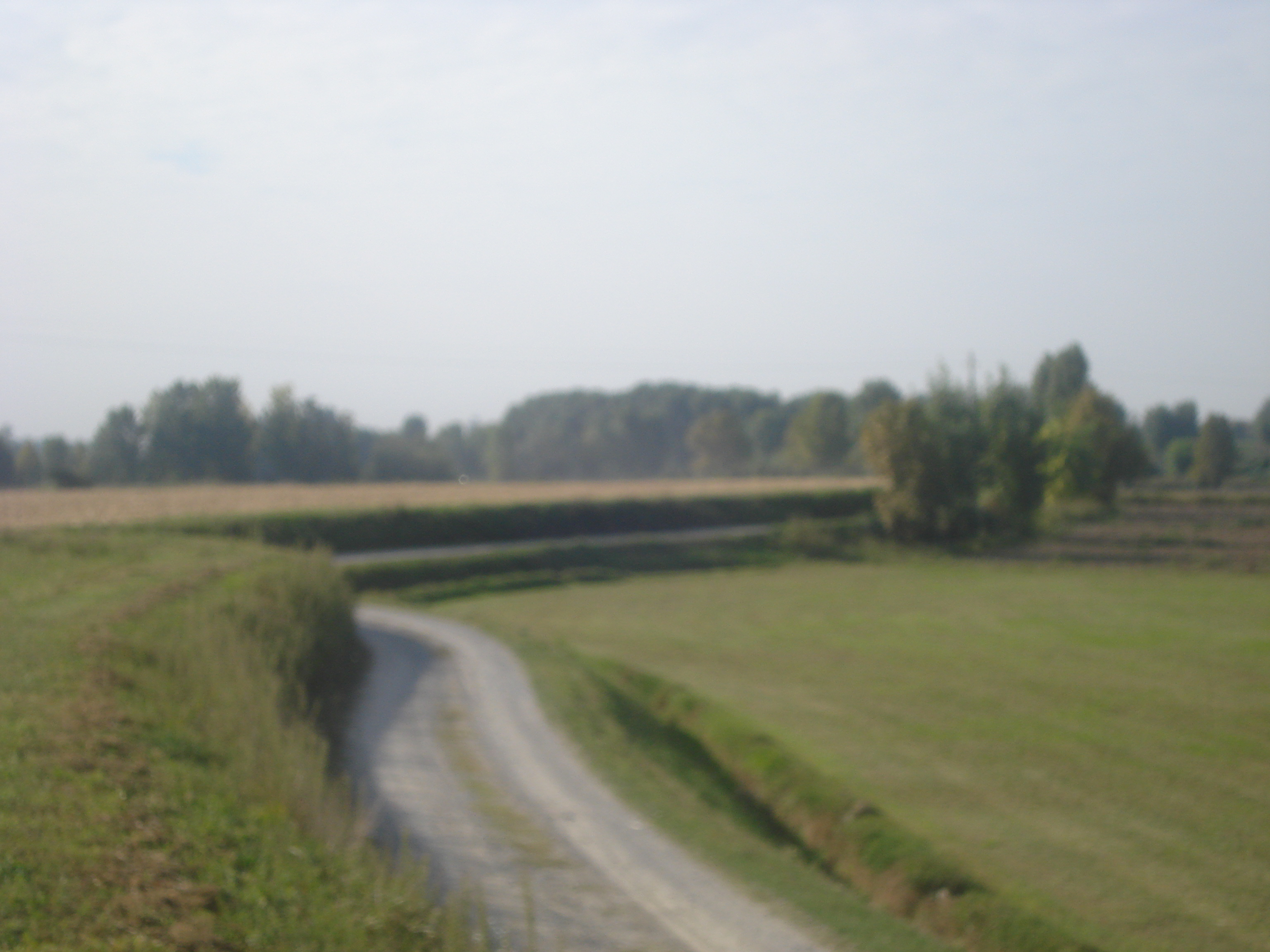 The country of Gottolengo